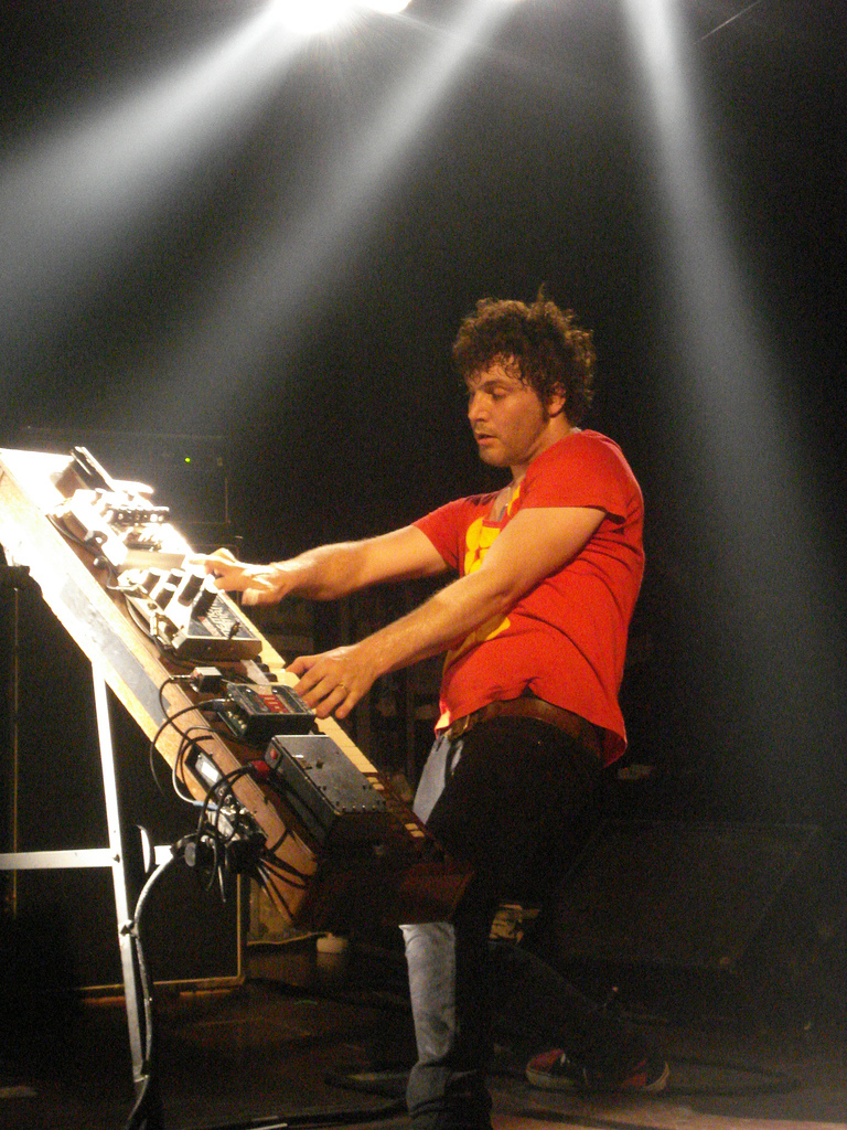 Chris Ross of Wolfmother performing live on May 24, 2007 in Portugal